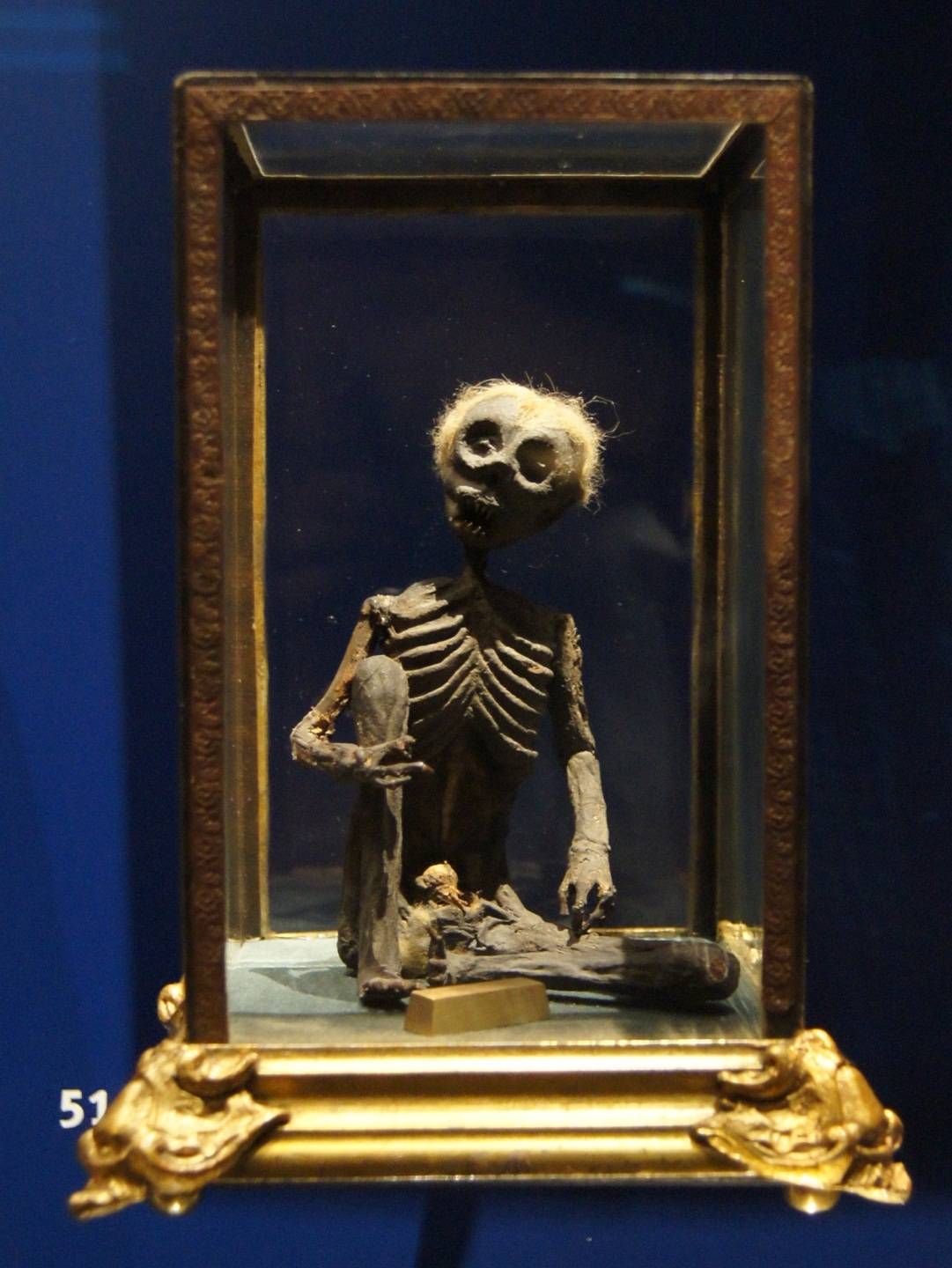 Homunculus, Landesmuseum Württemberg (Cabinet of art)